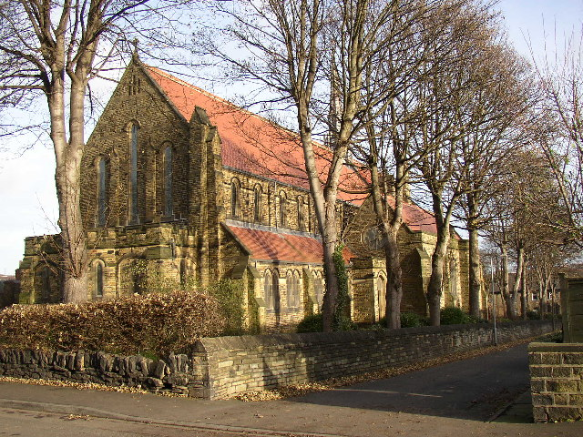 All Saints Church was built in 1903 on land given by Lord Savile. This is in English-Medieval style with a steeple surmounted by a copper-plated statue of Archangel Gabriel. It was part of the Anglo-Catholic revival (The Oxford Movement) and is still very 'high-church'. Cloisters and schoolrooms were added in 1916.